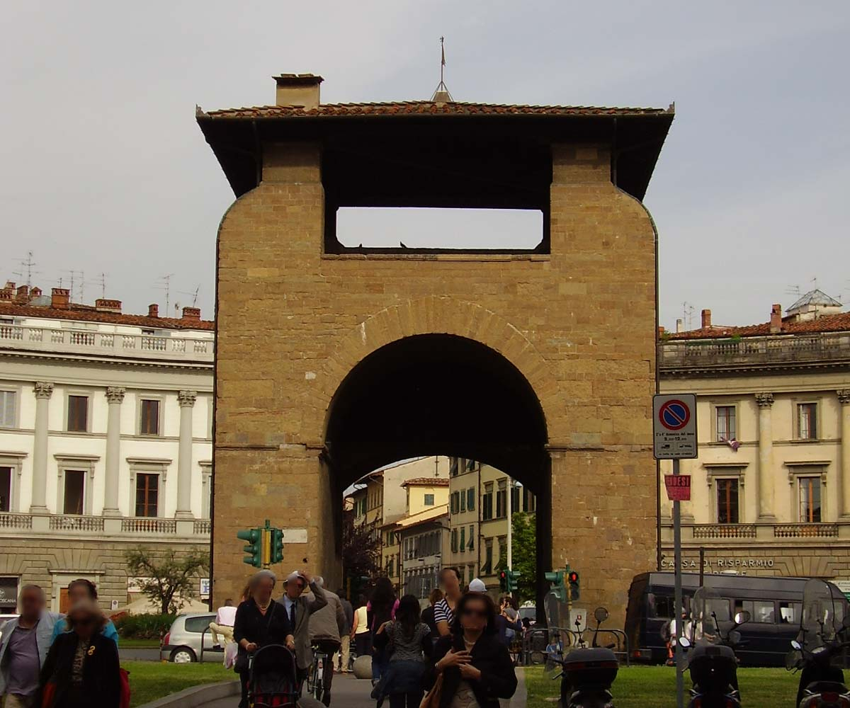 Beccaria Square, in Florence, Italy.